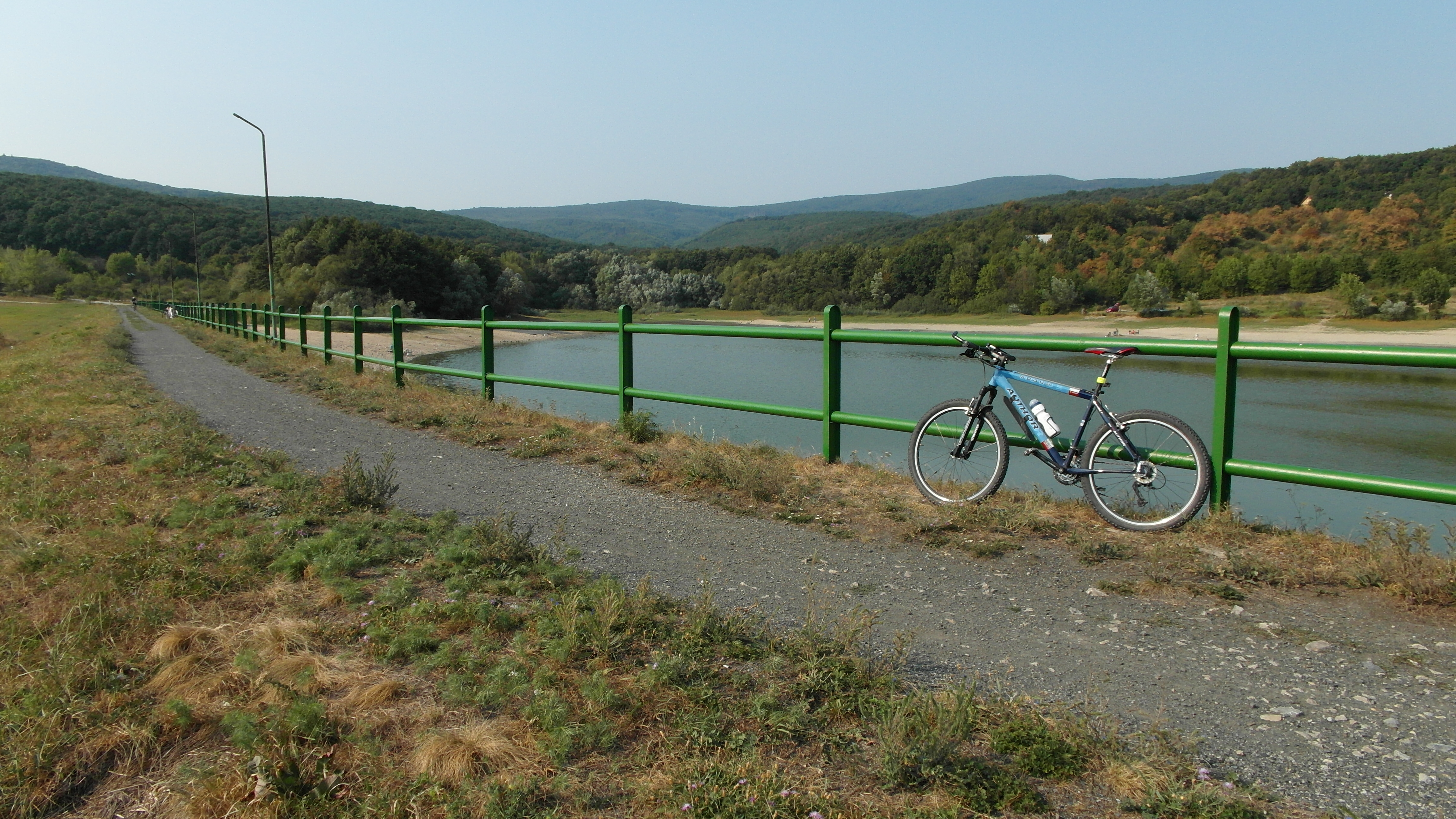 CHODNÍK PRI PRIEHRADE